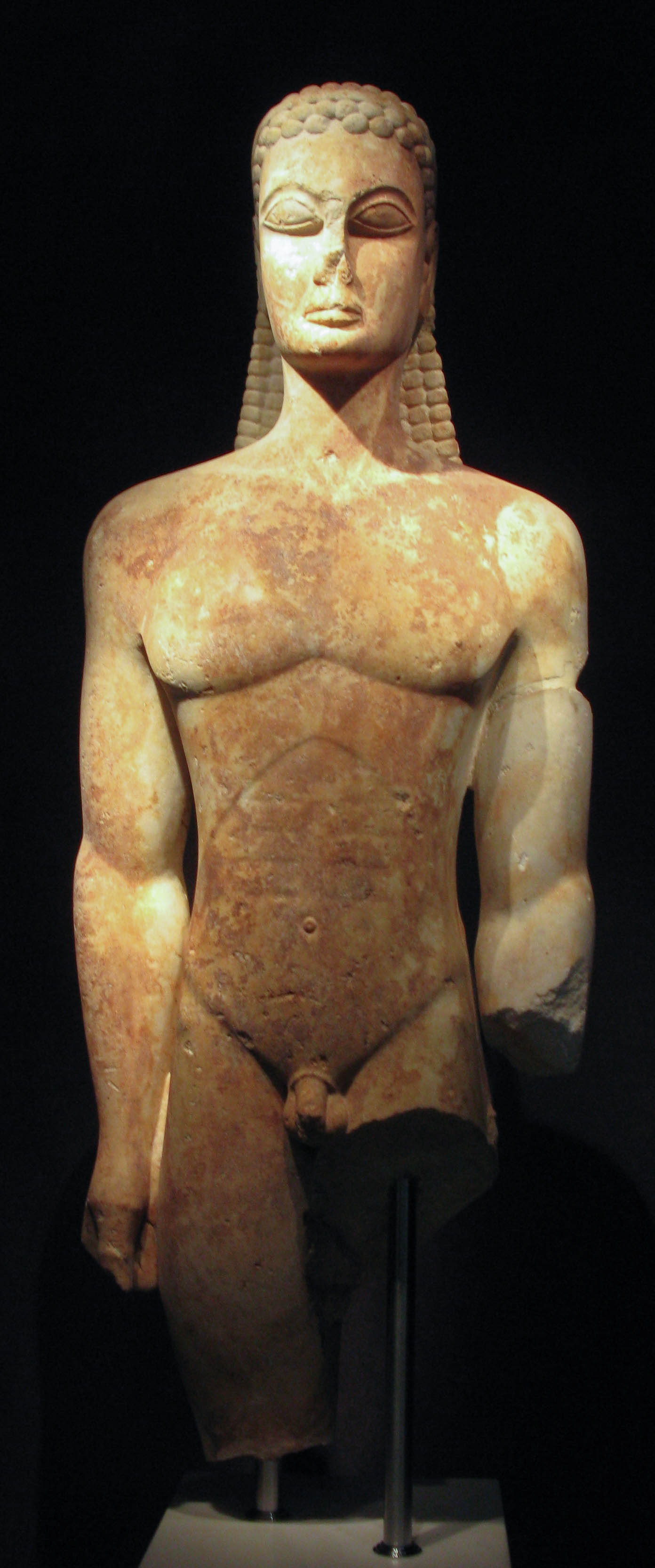 So-called "Sacred Gate kouros". Marble, ca. 600-590 BC. Found in 2002 by the German Archaeological Institute in Athens. Kerameikos Archaeological Museum in Athens. Picutre by Giovanni Dall'Orto, 12 november 2009.